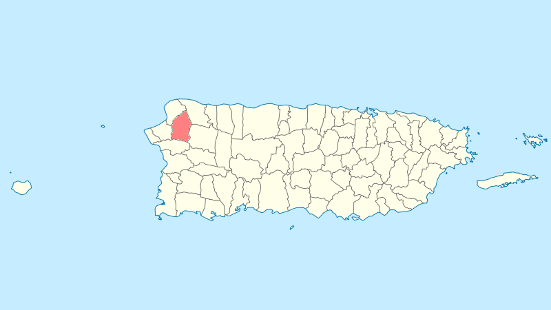 Municipal locator of Puerto Rico